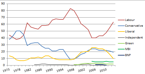 Seat total for parties between 1973-2012 on the Leeds City Council.